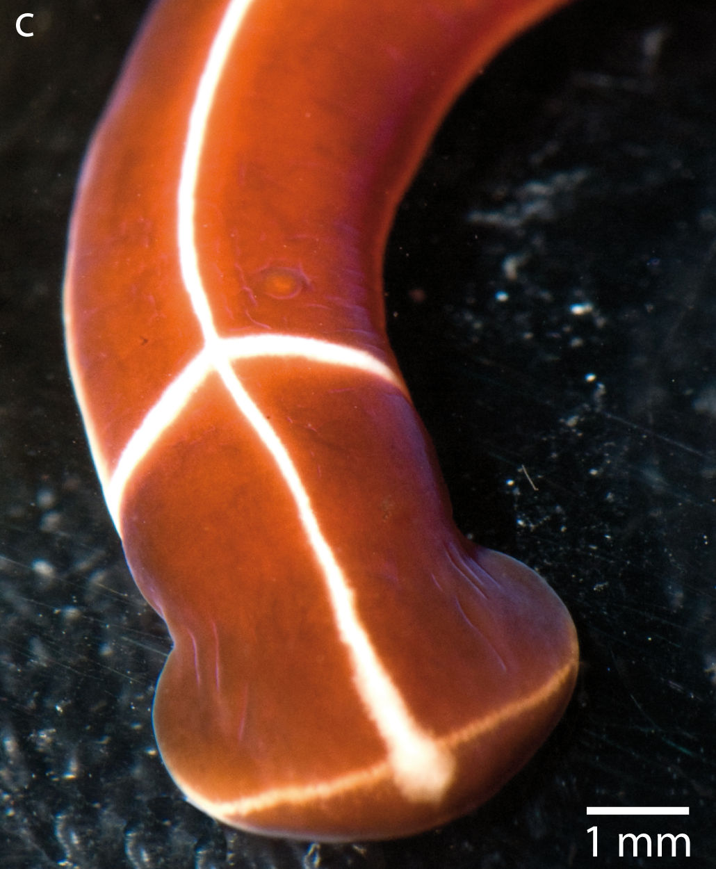 Living specimens of Tubulanus superbus (Nemertea: Anopla: Palaeonemertea).